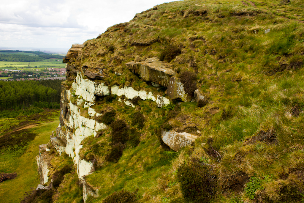 Highcliff Nab, Guisborough, taken 2011